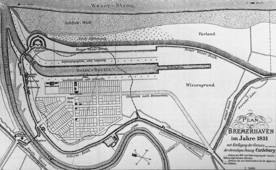 Map showing the city of Bremerhaven (Germany) in 1831. A dotted line marks the location of the former fortress / city of Carlsburg.